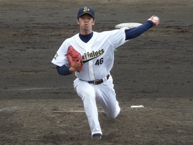 OB-Shinjiro-Kojima20110623